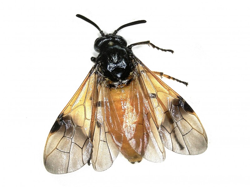 Arge cyanocrocea (Argidae) - (imago), Elst (Gld) - Golfbaan Welderen, the Netherlands